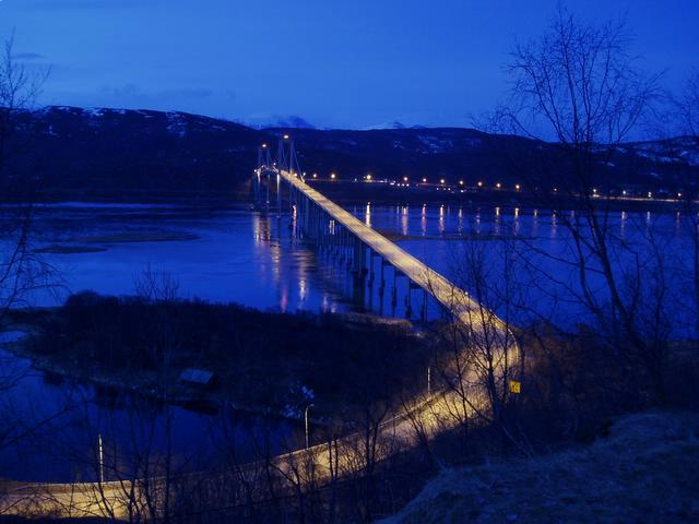 The Tjeldsund Bridge outside Harstad, Troms, Norway (Picture by: Trond Henningsen)